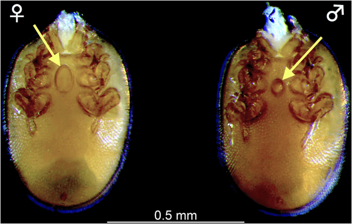 Left: ventral view of a female; right: ventral view of a male. The genital shield (yellow arrows) presents a marked sexual dimorphism: the male has a sub-circular small genital plate compared with that of the female, which is oval and larger.